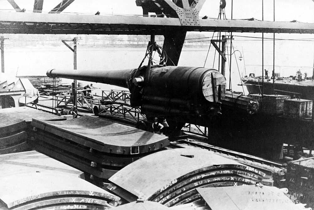 Author ; source: HISTARMAR website; URL